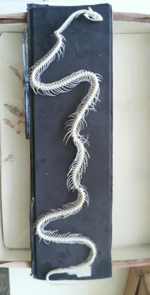 Natrix